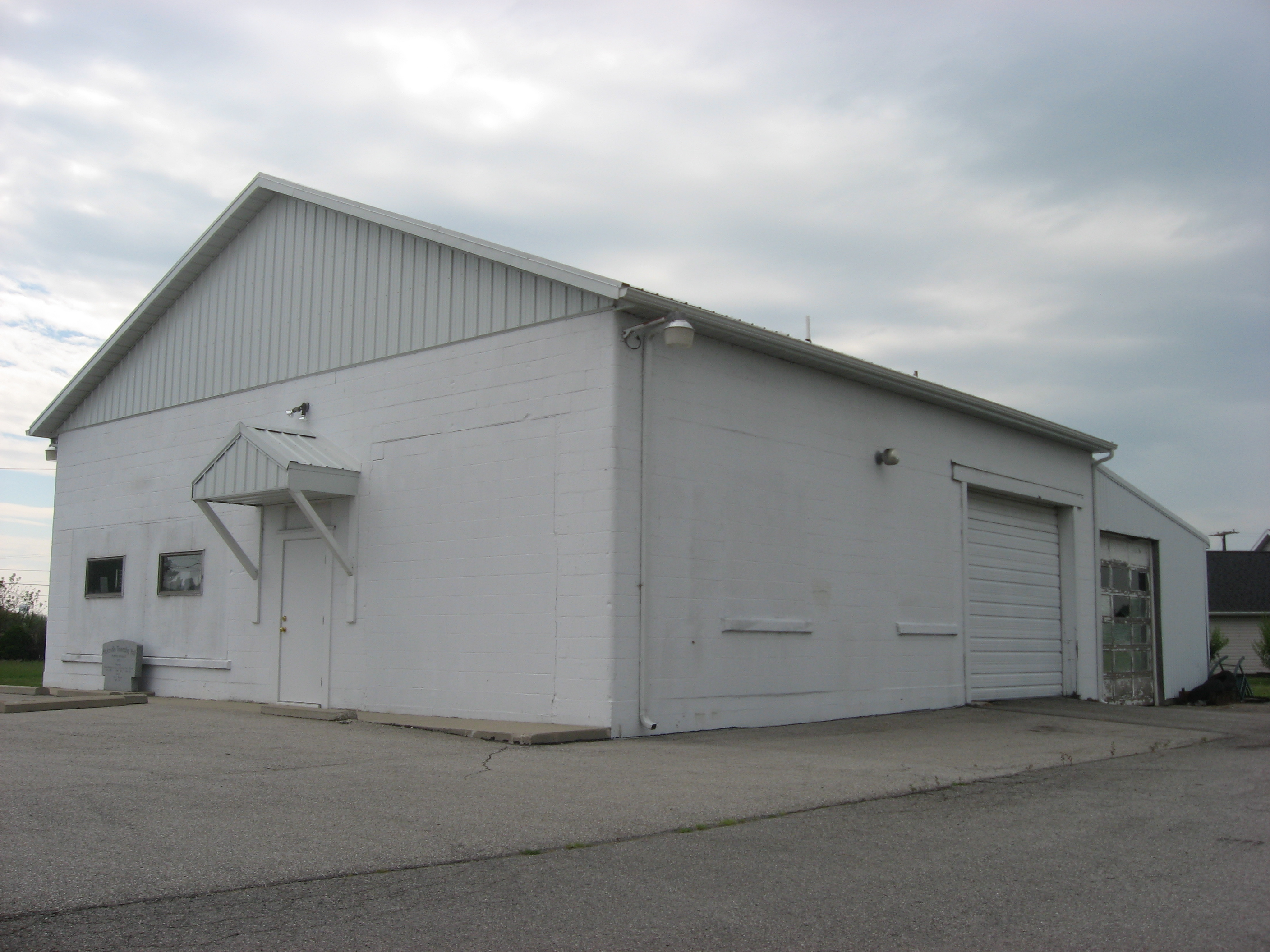 Front of the Hicksville Township Hall, located along State Route 2 northeast of Hicksville in Defiance County, Ohio, United States.